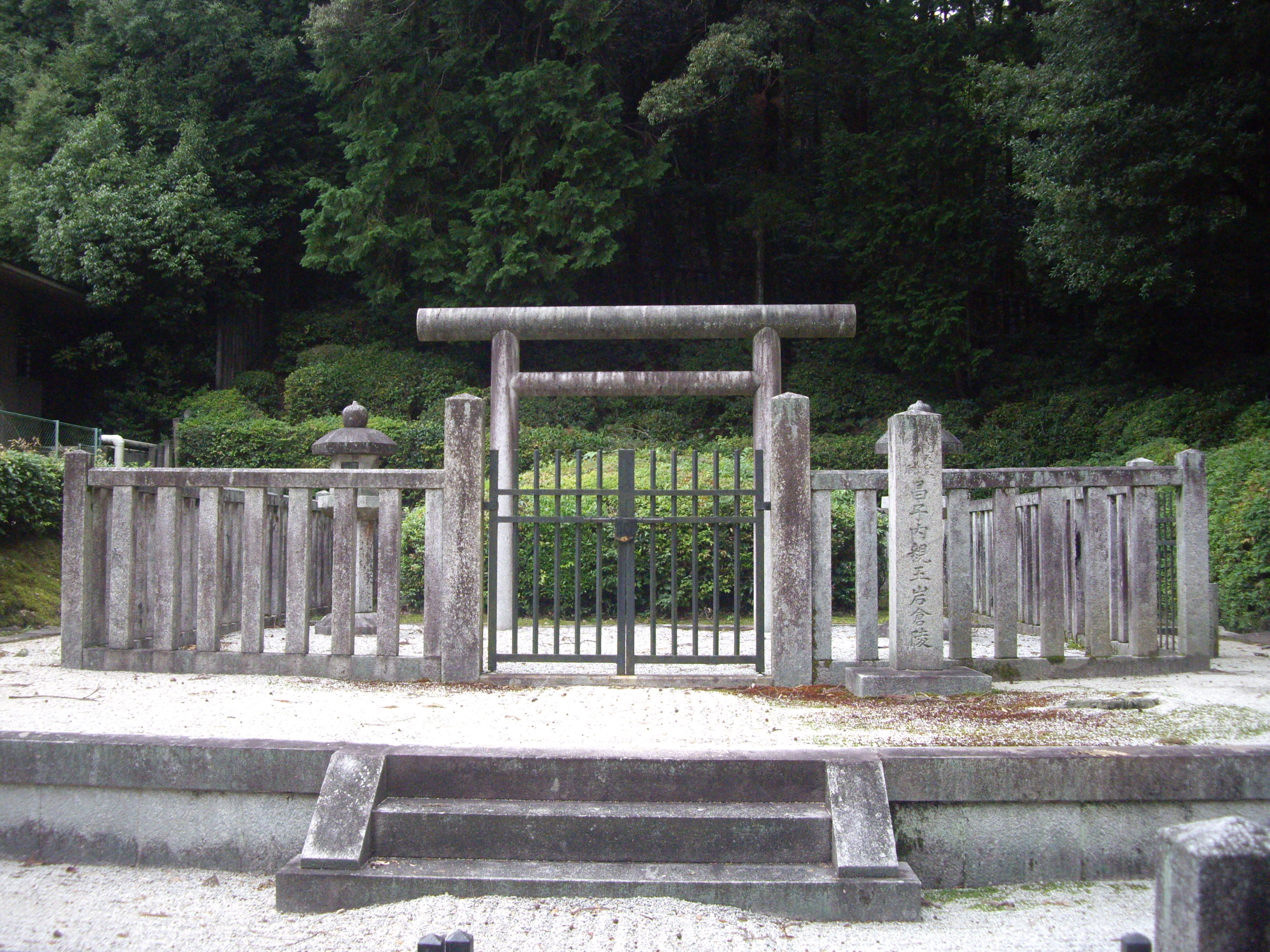 The Mausoleum of Princess Masako, in Sakyō-ku, Kyoto, Kyoto Prefecture, Japan